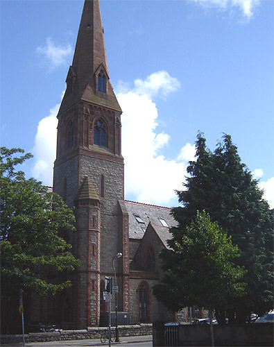 Photo of (Church of Ireland) St. Kevin's church in Portobello, Dublin. Taken by me.